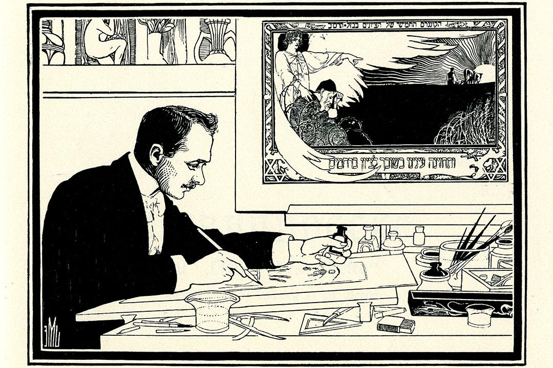 Self portrait by Ephraim Moses Lilien.